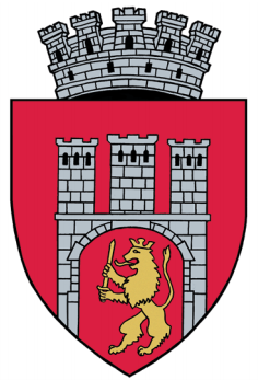 Coat of the city Sighişoara (Romania)